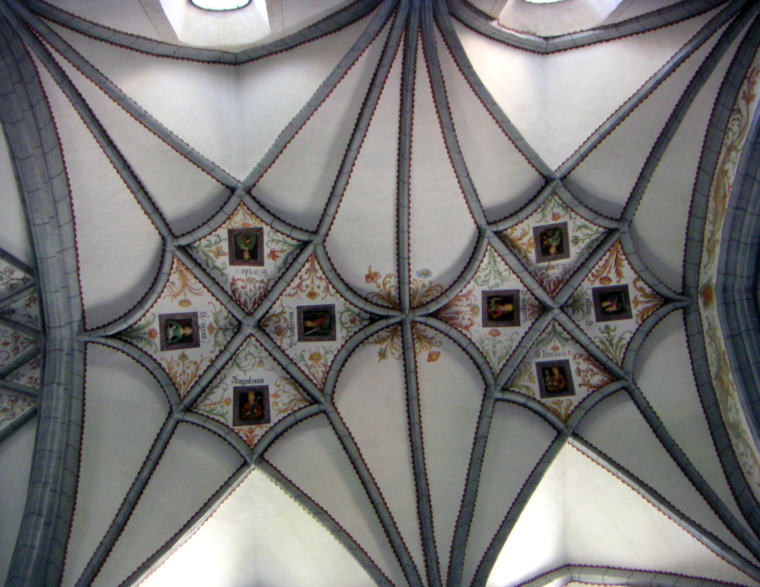 Vault in the Gurk cathedral, Carinthia, Austria